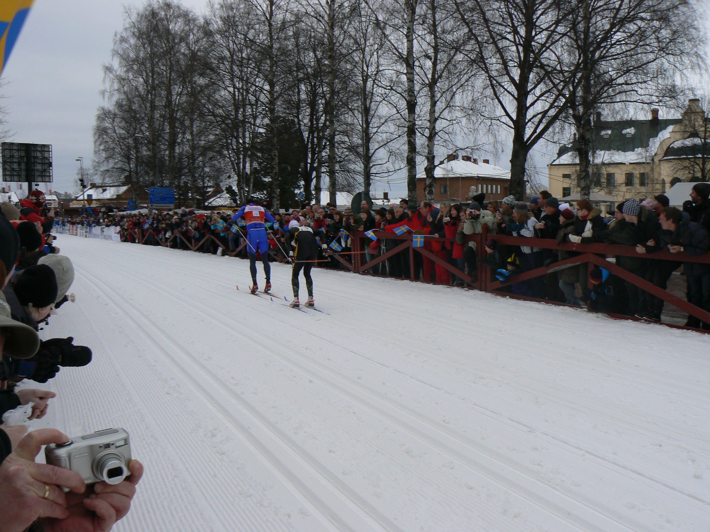 Skiers Oskar Svärd and Jerry Ahrlin fighting for the gold medal of Vasaloppet 2007, approaching the finish line in Mora. Photo by Skvattram 2007-03-04.